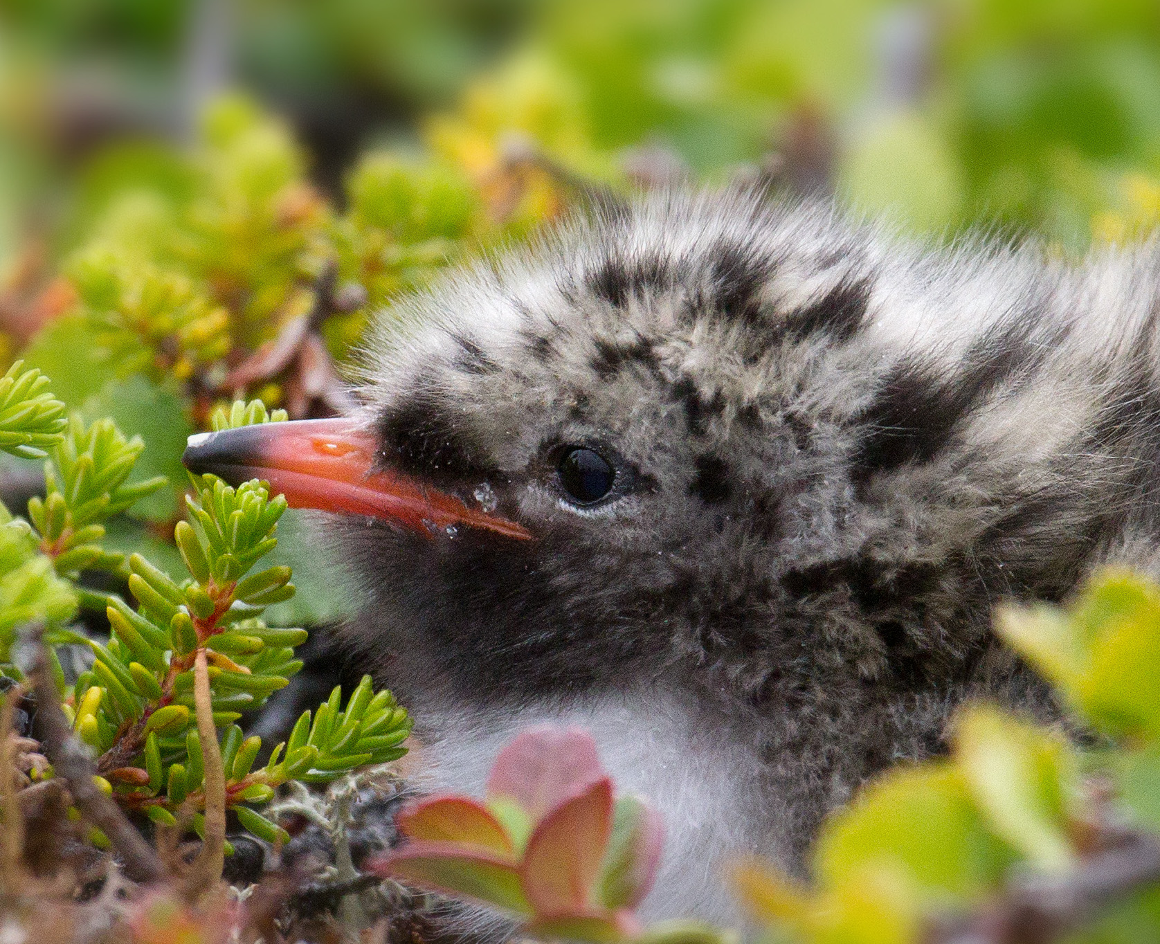 An Arctic Tern chick in Finnmark, Norway. Its egg tooth is still present and is seen as a small white projection near the tip of its upper beak.